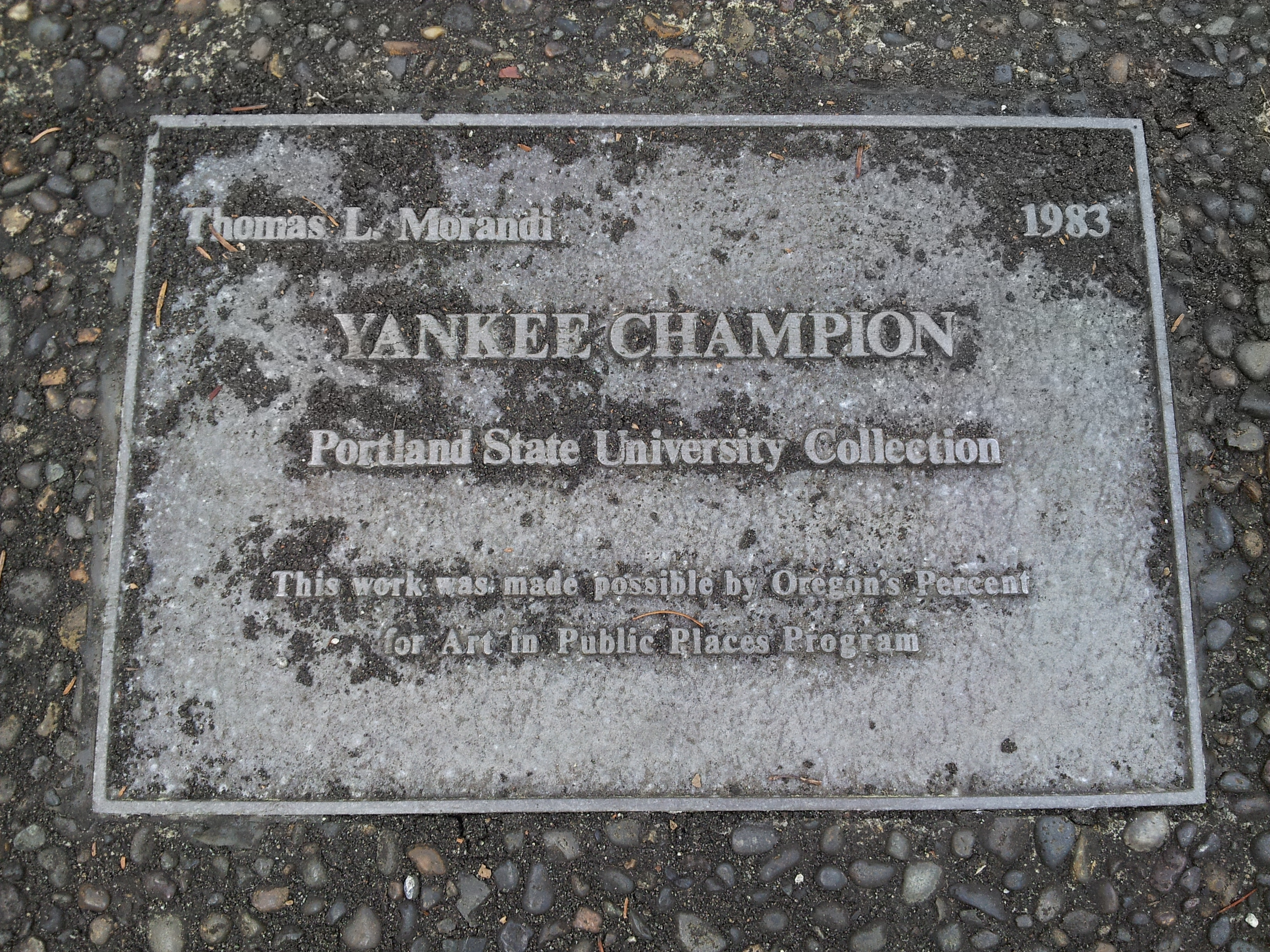 Yankee Champion, Portland (2014)